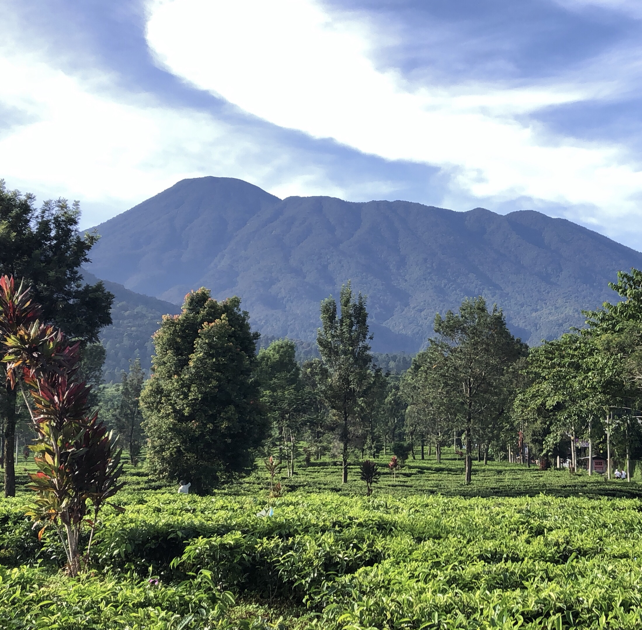 Gunung Panrango In Bogor Gunungmas Hills